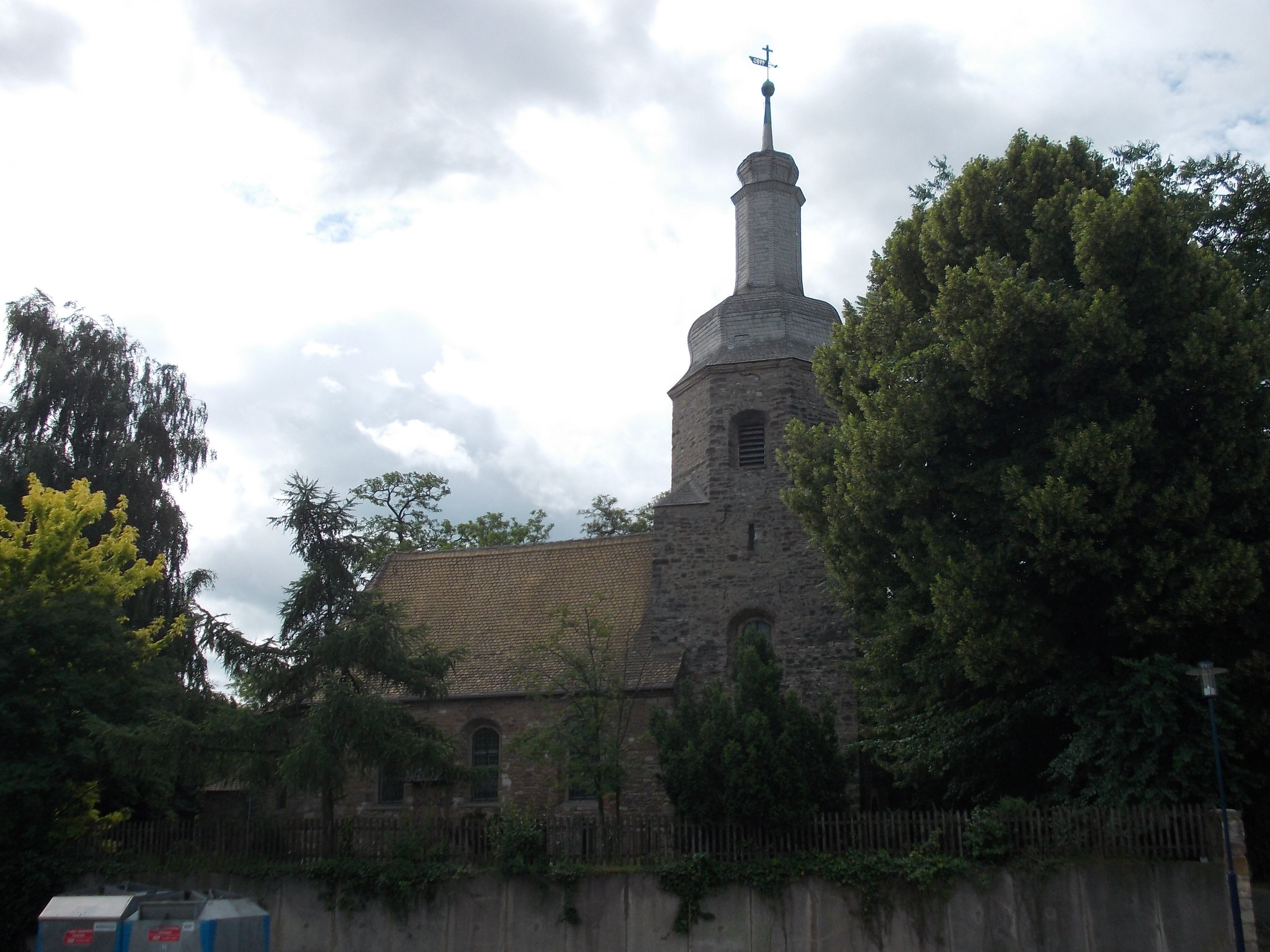 Grace Church in Leuna (district: Saalekreis, Saxony-Anhalt)